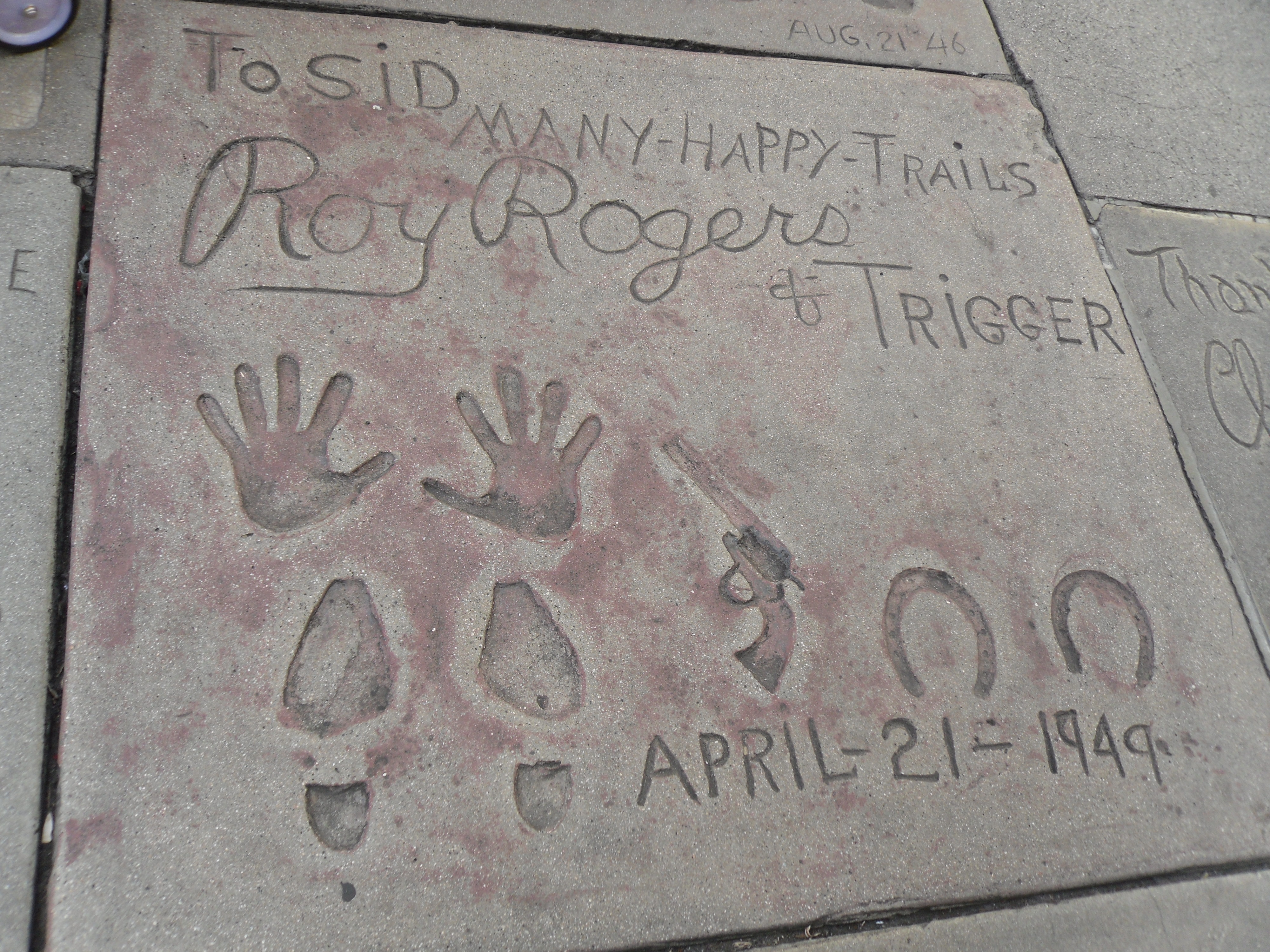 Roy Rogers's signature at Grauman's Chinese Theatre